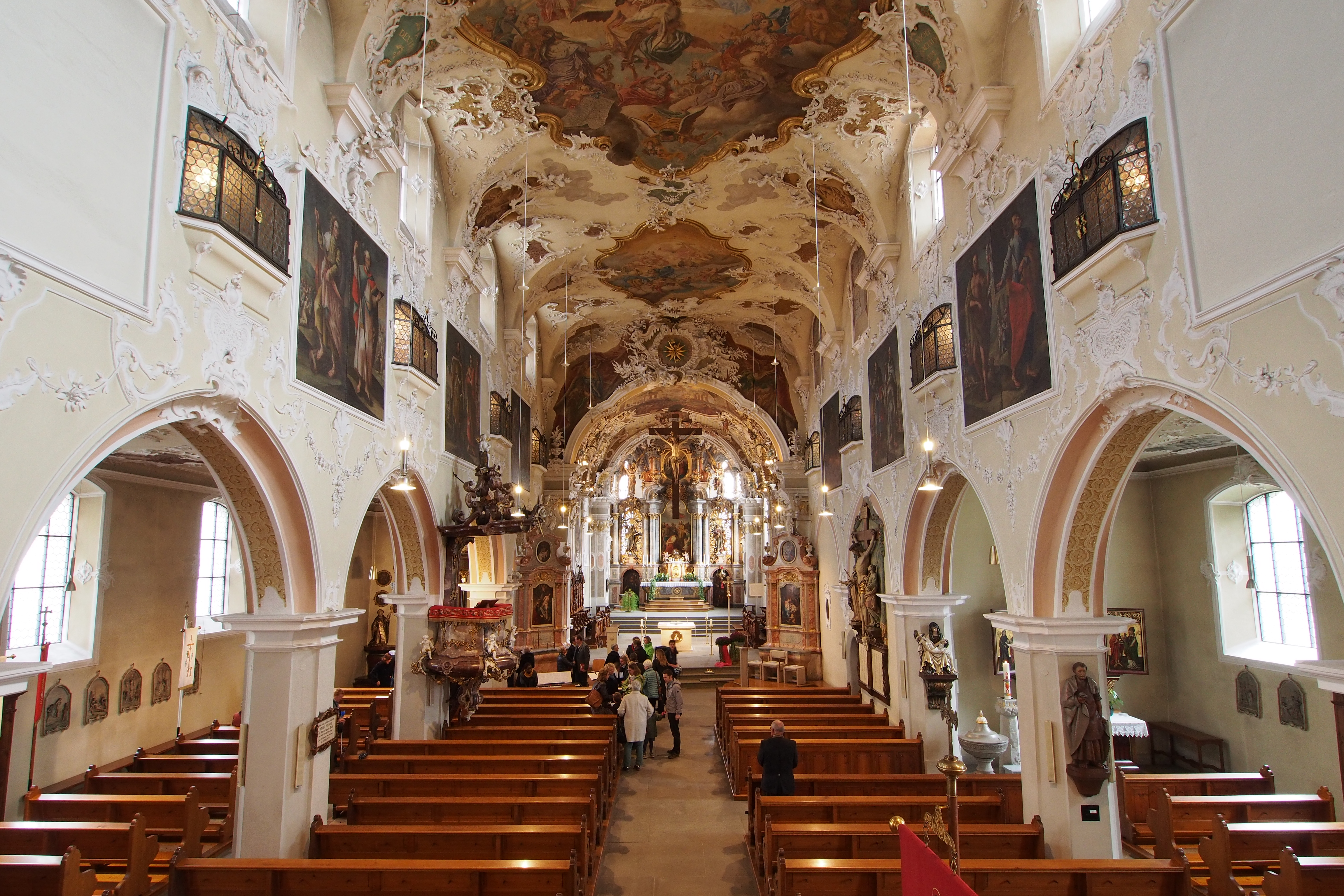 parish church St. Jakob in Pfullendorf